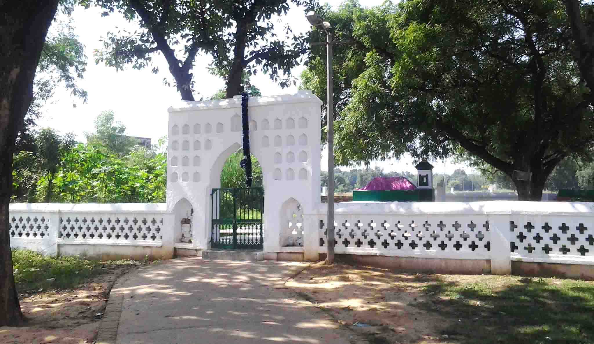 Saiyed Muhammad haquani